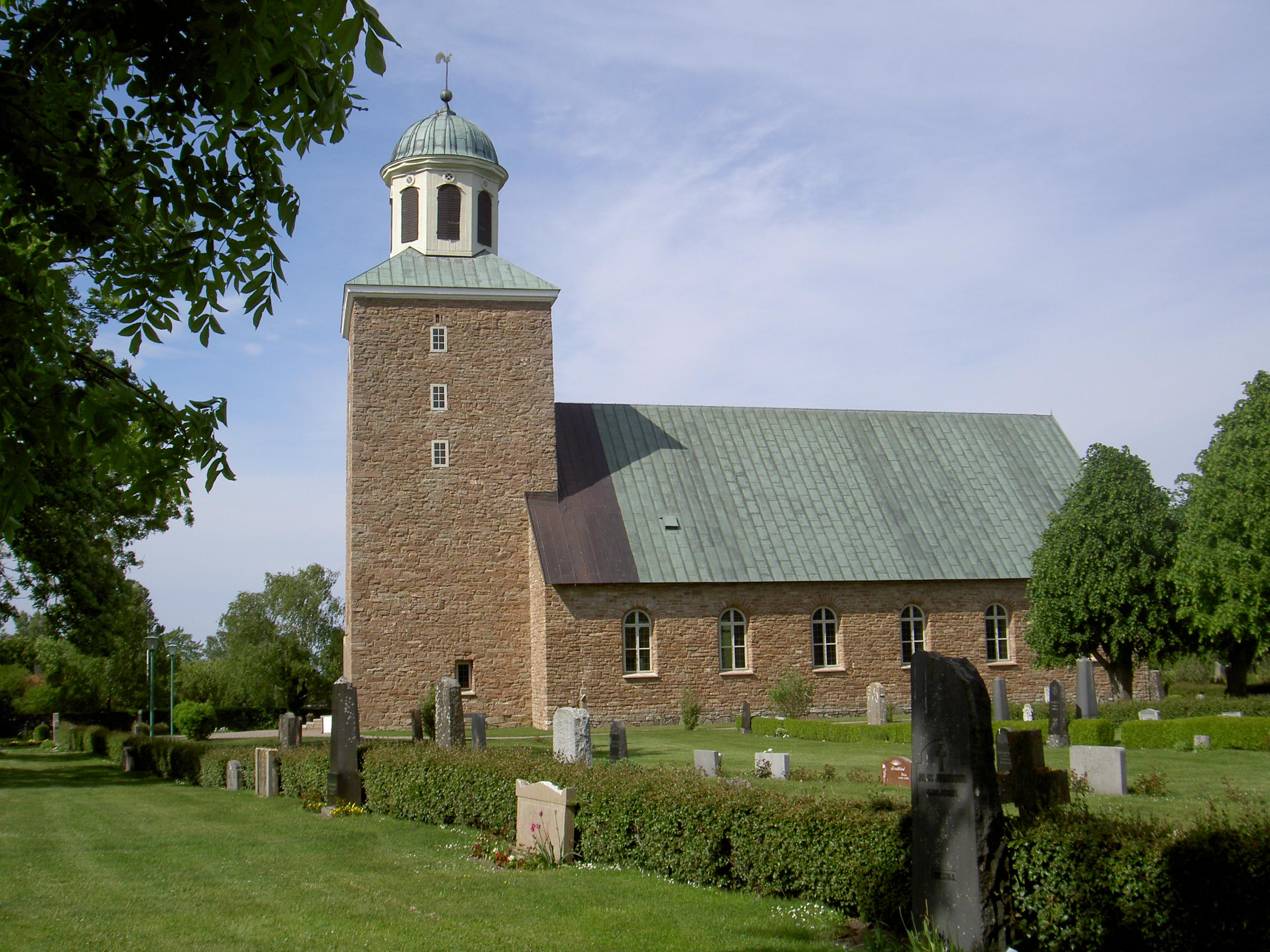 Köping Church.